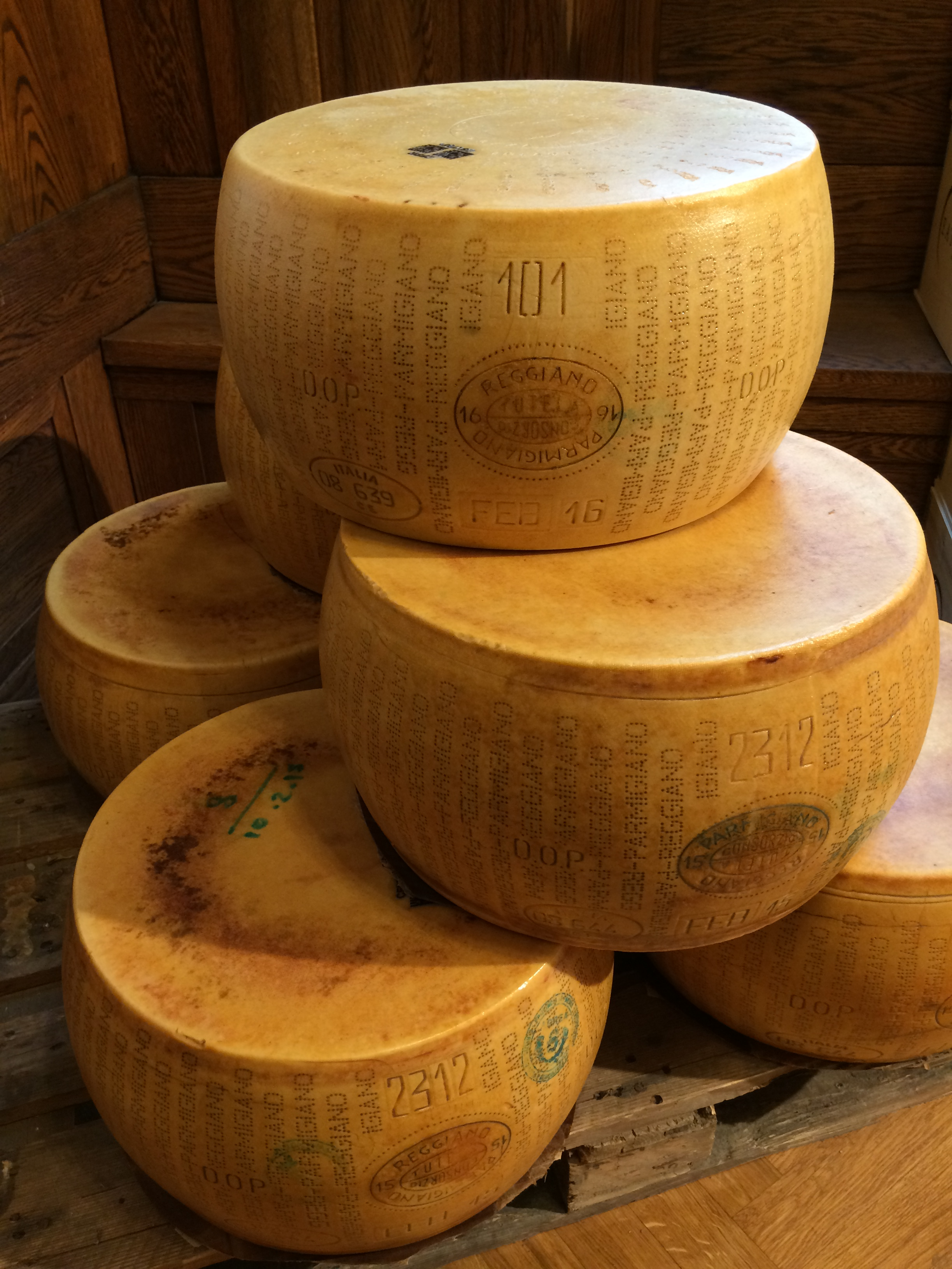 Parmigiano-Reggiano at Eataly in Stockholm